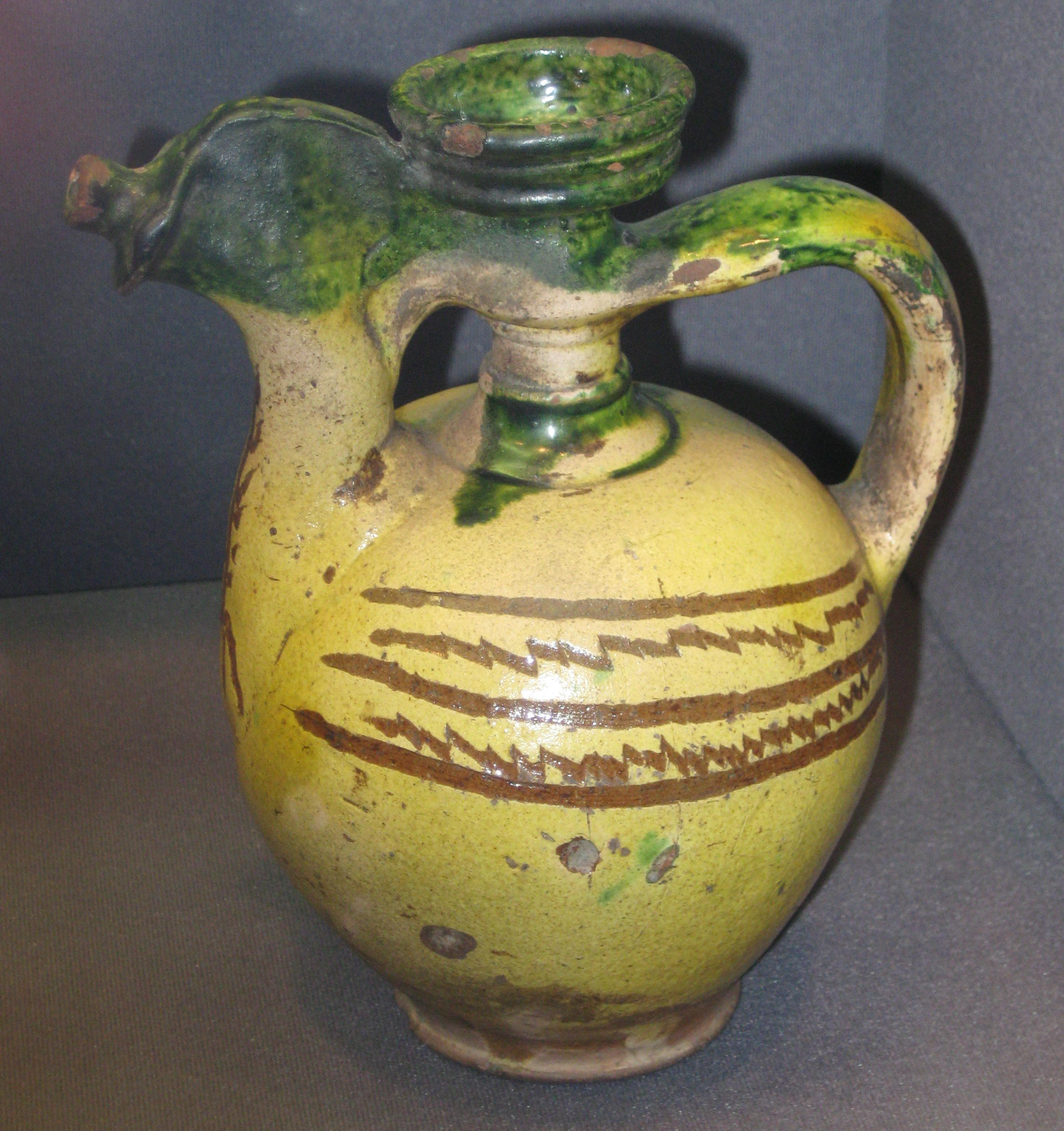 This is a late 17th to early 18th century jug from Moravia, the Czech Republic. It is today located in the collection of UBC's Museum of Anthropology in Vancouver, Canada.